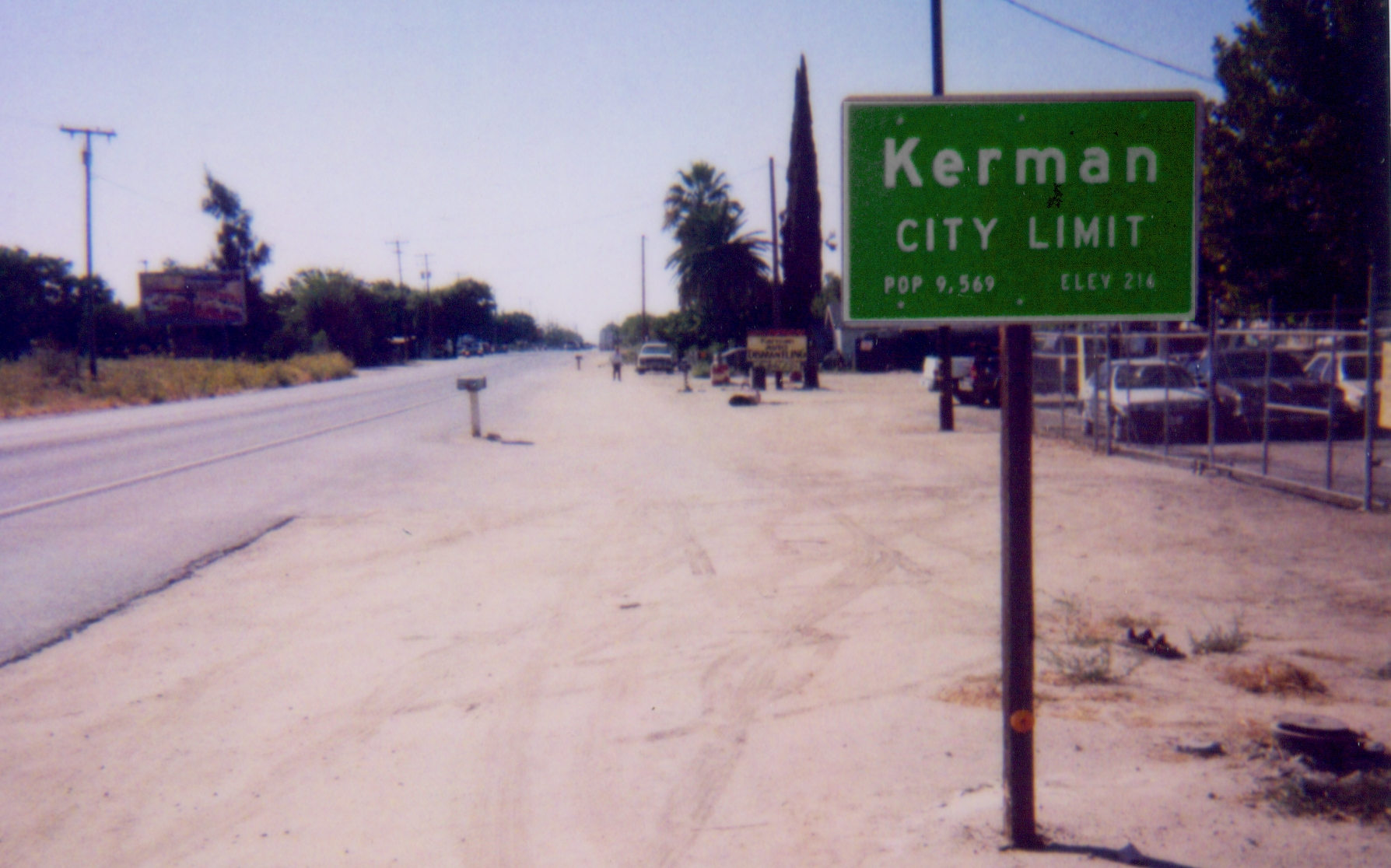 Documentary snapshot of city limit sign along SR180 on the east side of Kerman. Polaroid snapshot image taken in 2006. Photo by David Jordan. Please credit the photographer when using this photo. State Route 180